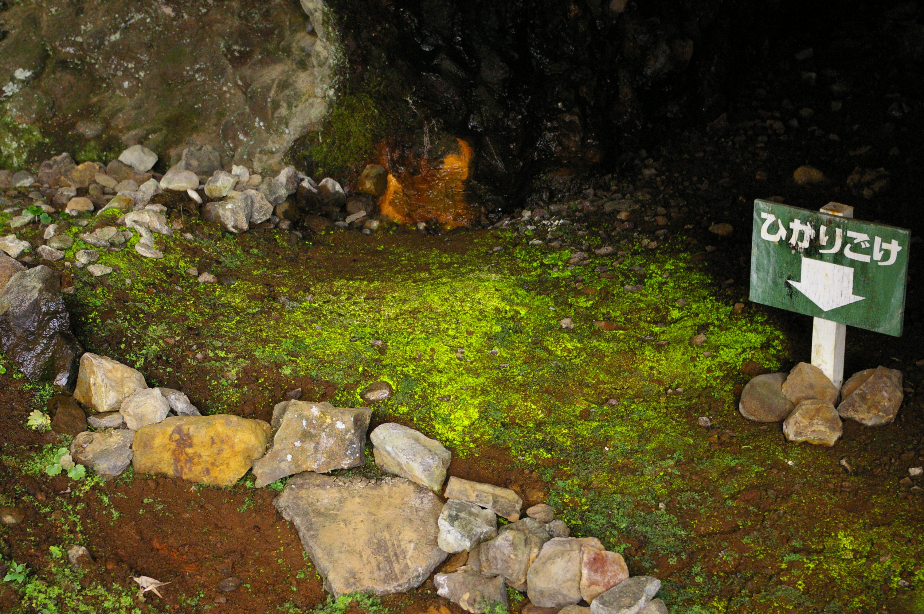 Luminous moss (Schistostega pennata) in Makkausu Cave, Rausu, Hokkaido